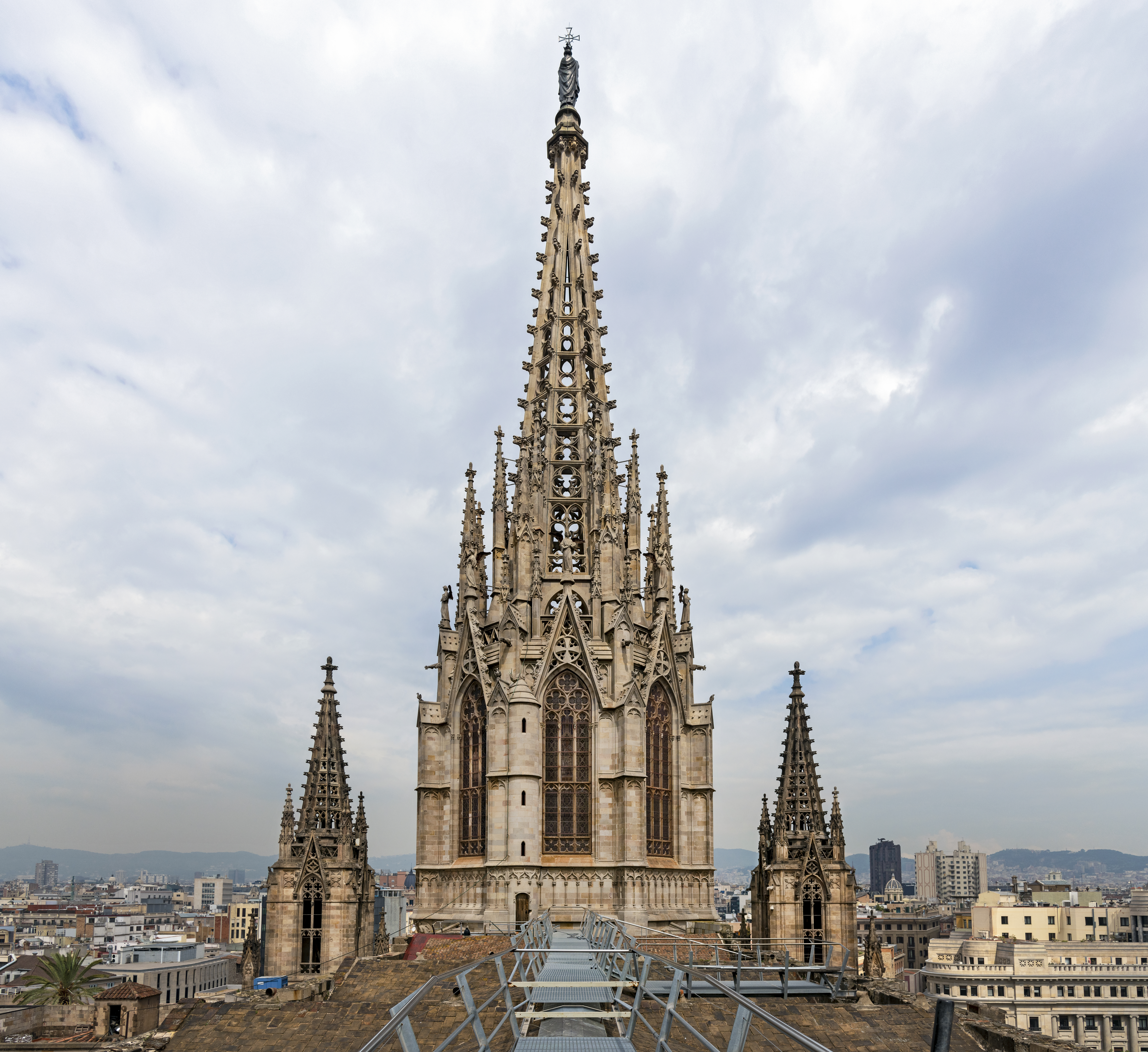 The Cathedral of the Holy Cross and Saint Eulalia in Barcelona. Pinnacles of the Cathedral of Barcelona.